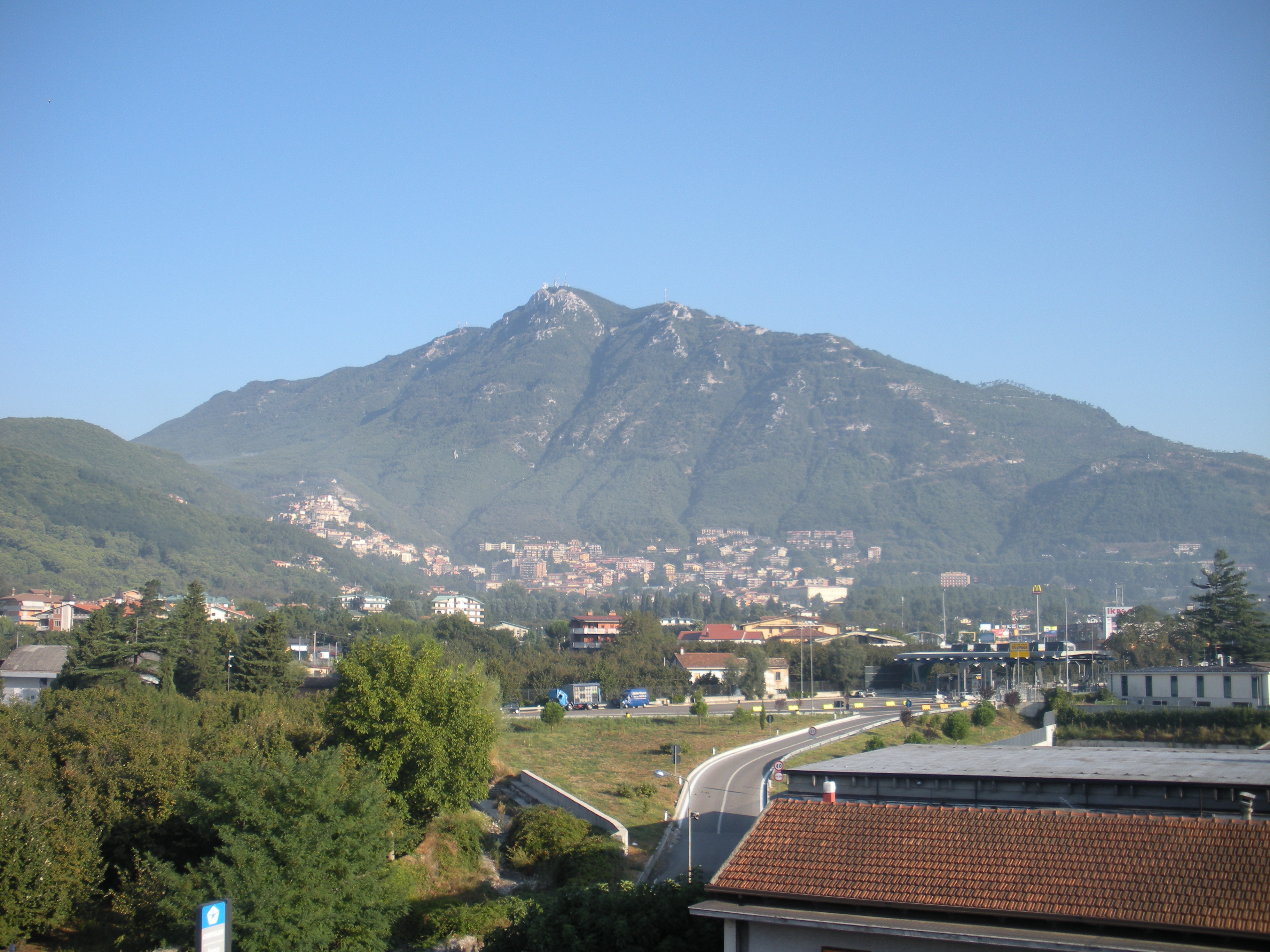 Mercogliano, landscape